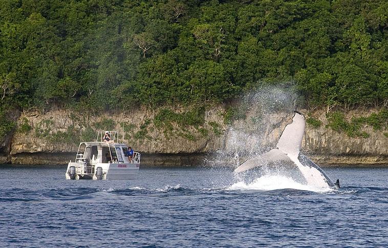 Whale watching, Vava'u group - Tonga, Polynesia